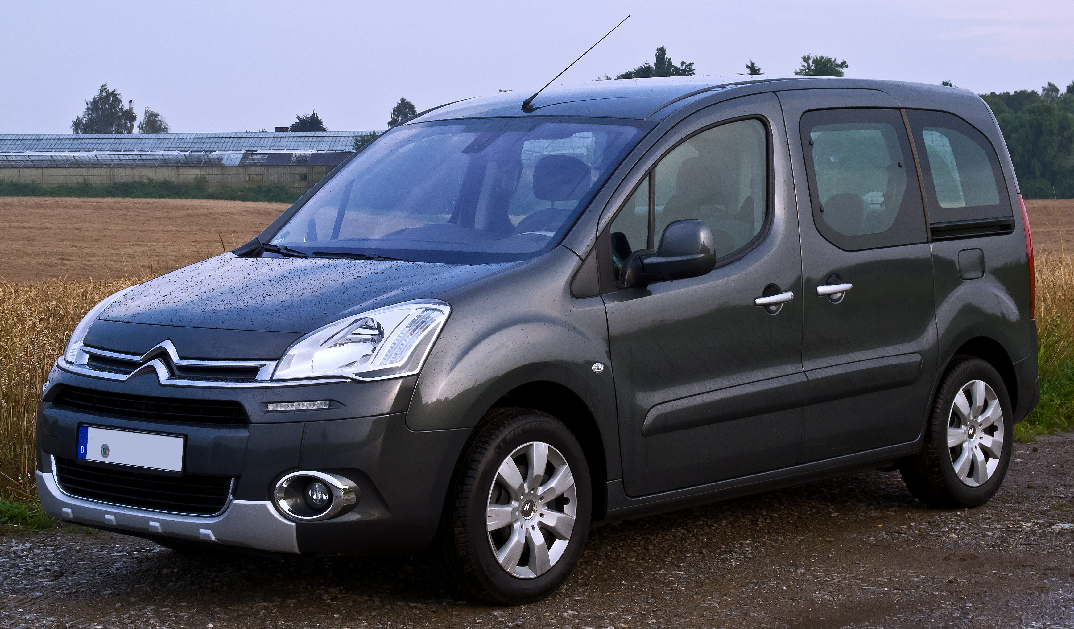 Citroën Berlingo Multispace HDi 90 Selection (II, Facelift)